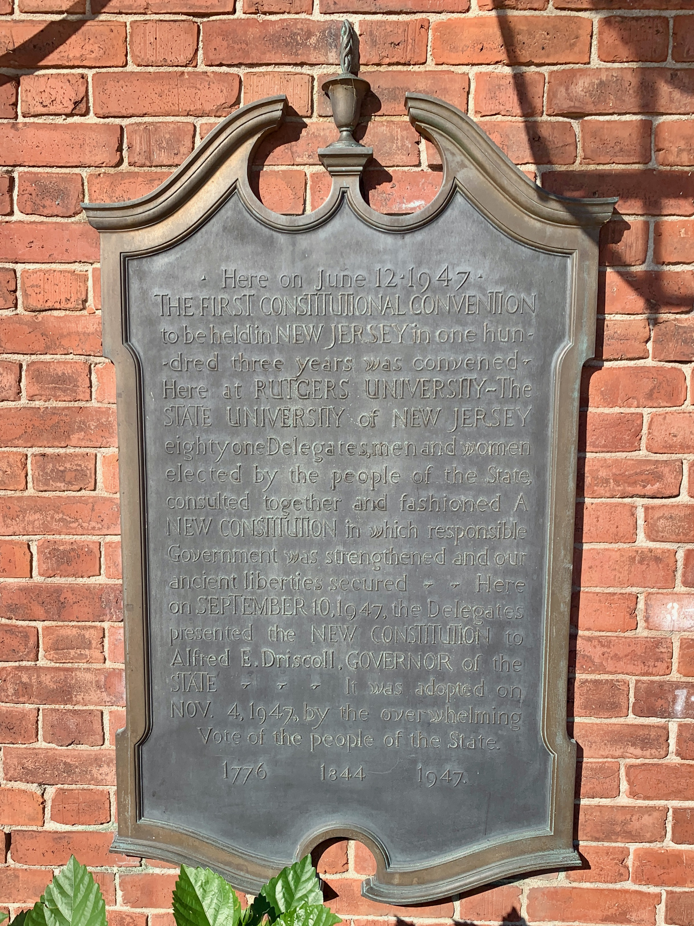 Historical information plaque about the 1947 New Jersey Constitutional Convention held at the College Avenue Gymnasium of Rutgers University in New Brunswick, New Jersey.